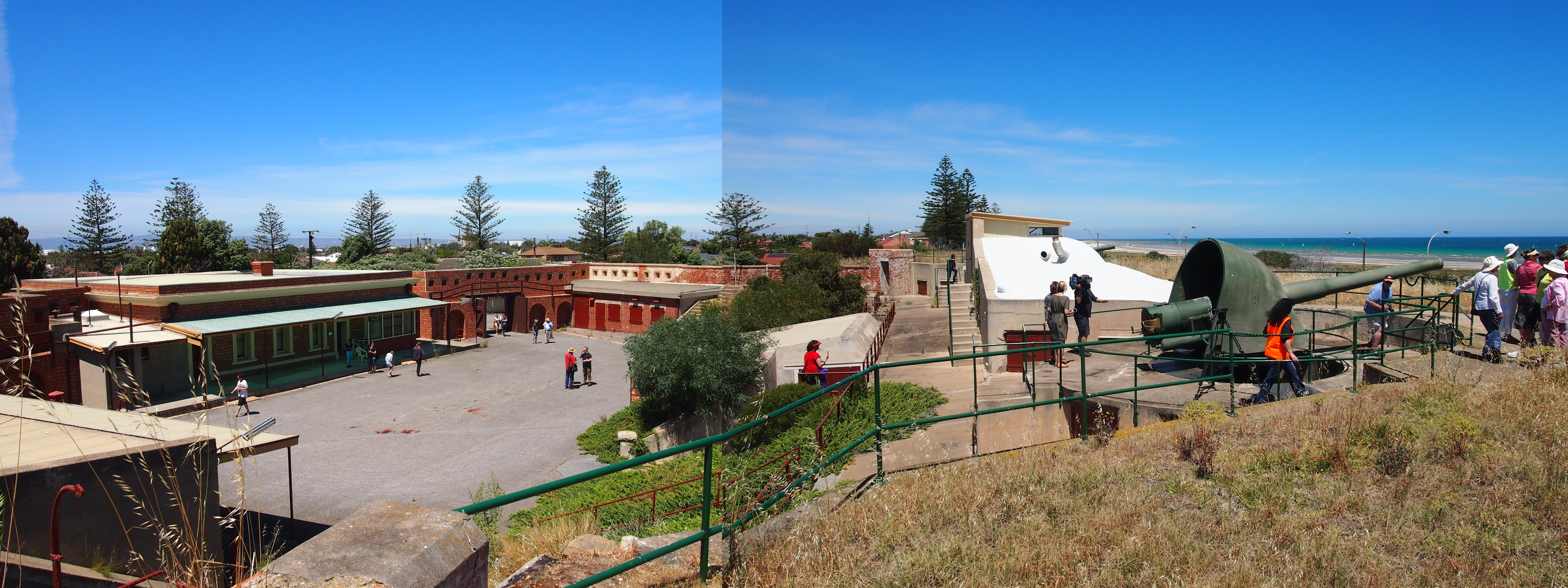 Panoramic view of Fort Largs, South Australia, from the north, 25 October 2014. Composite of photos - original filenames = PA254437.JPG, PA254438.JPG